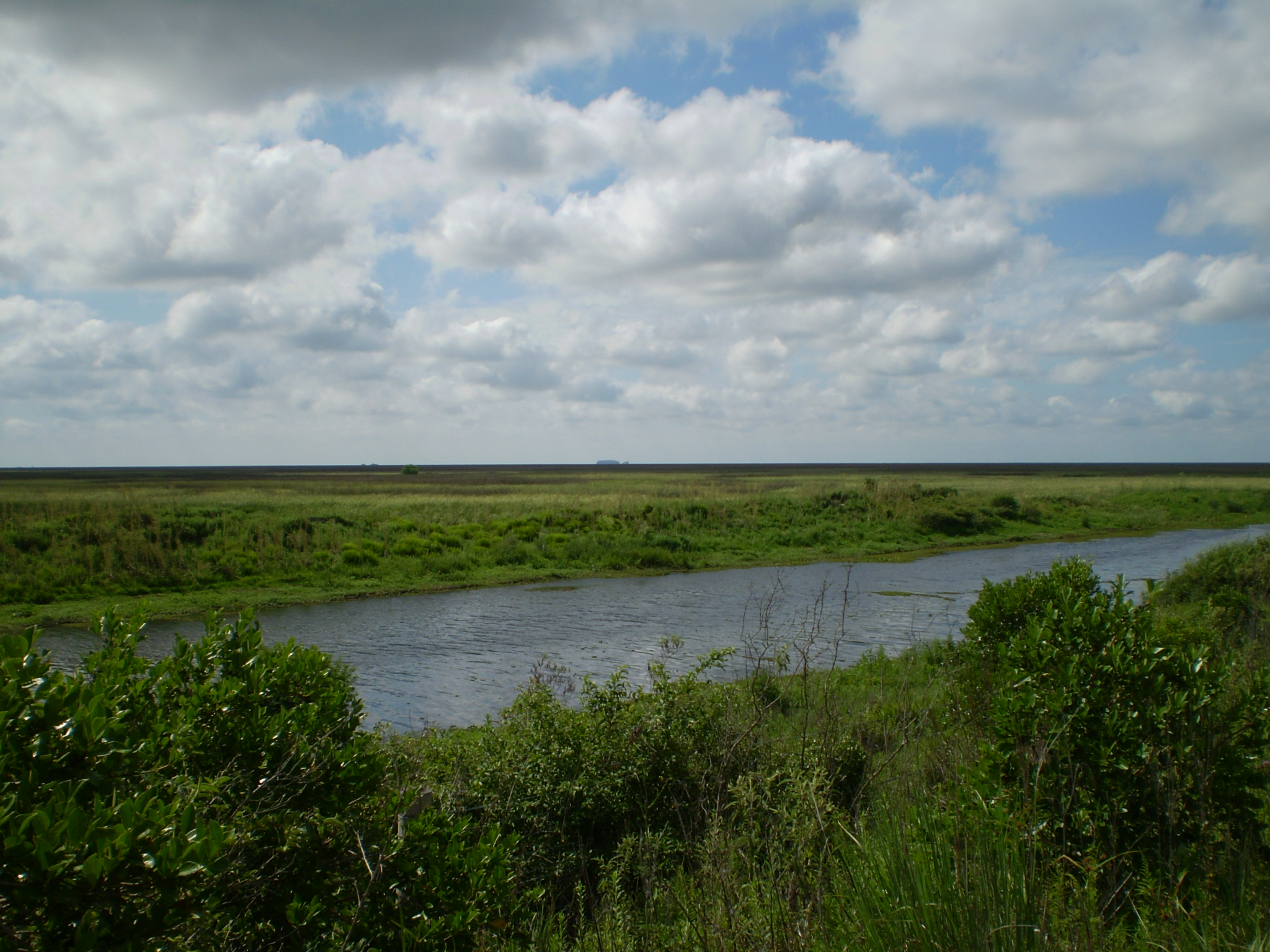 View of the ecological reserve of Taim, municipalities of Santa Vitória do Palmar and Rio Grande, Rio Grande do Sul, Brazil.